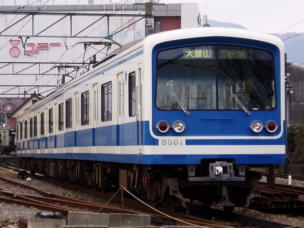 Izuhakone Railway 5000 series EMU set 5001 at Daiyuzan Station